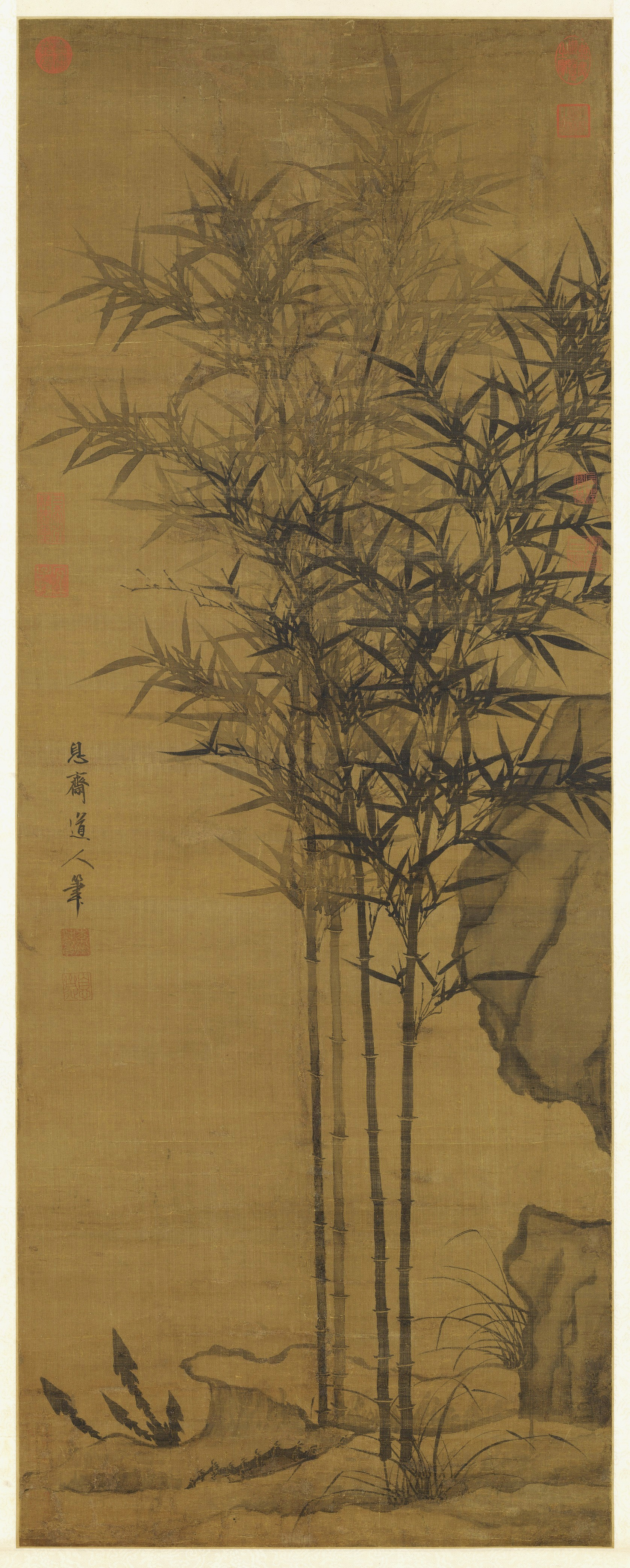 Li Kan, Peace Throughout the Four Seasons, NPM,Taipei